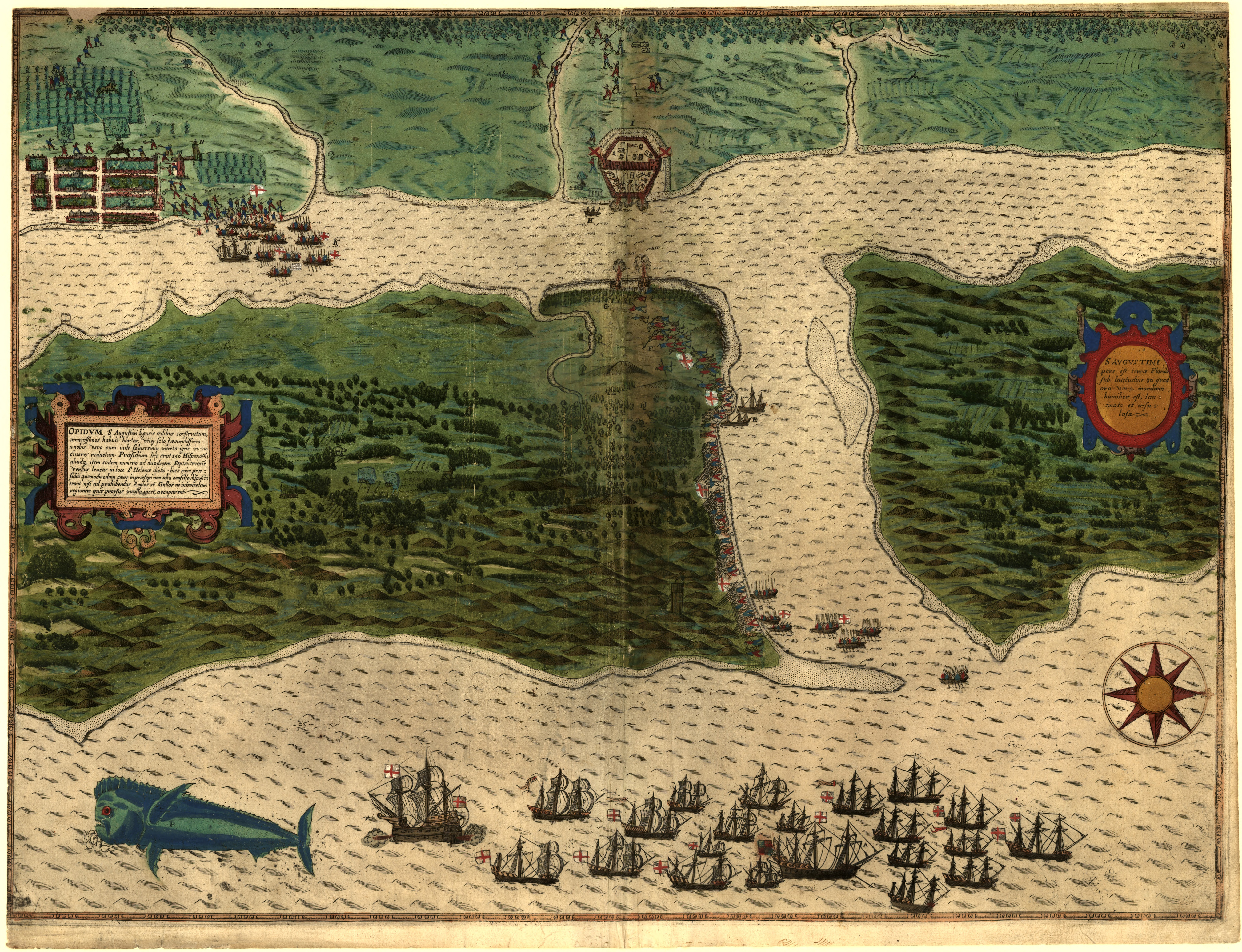 S. Augustini : pars est terra Florida, sub latitudine 30 grad, ora vero maritima humilior est, lancinata et insulosa. Scale not given. Oriented with north to the right. Relief shown pictorially. Pictorial map. Includes text in rectanglar cartouche. The view of St. Augustine is the earliest engraving of any locality that is now in the United States. The English fleet lies at anchor, the infantry troops having disembarked and are attacking the Spanish settlement on May 28 and 29, 1586. [1]